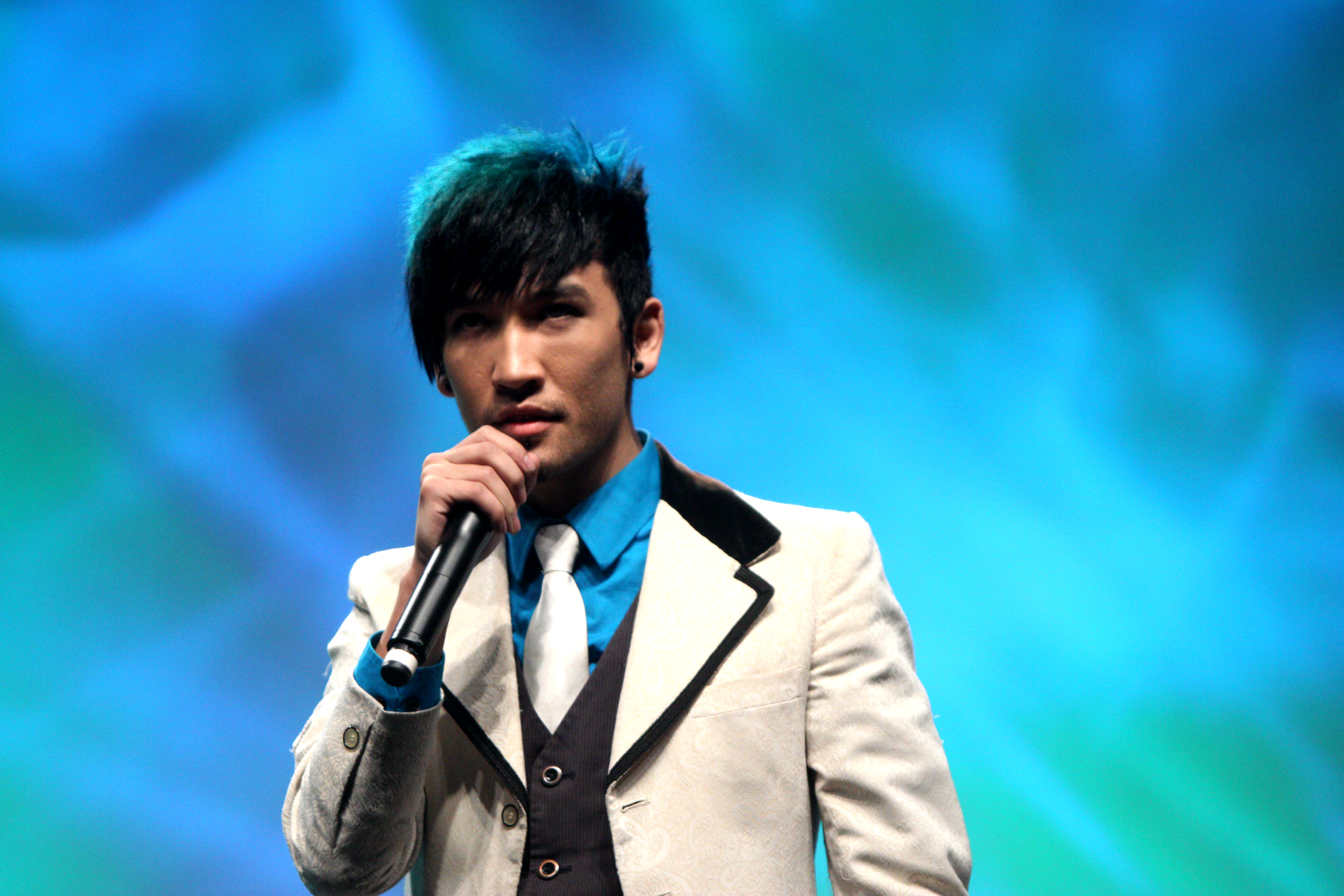 Mike Diva performing at VidCon 2012 at the Anaheim Convention Center in Anaheim, California.